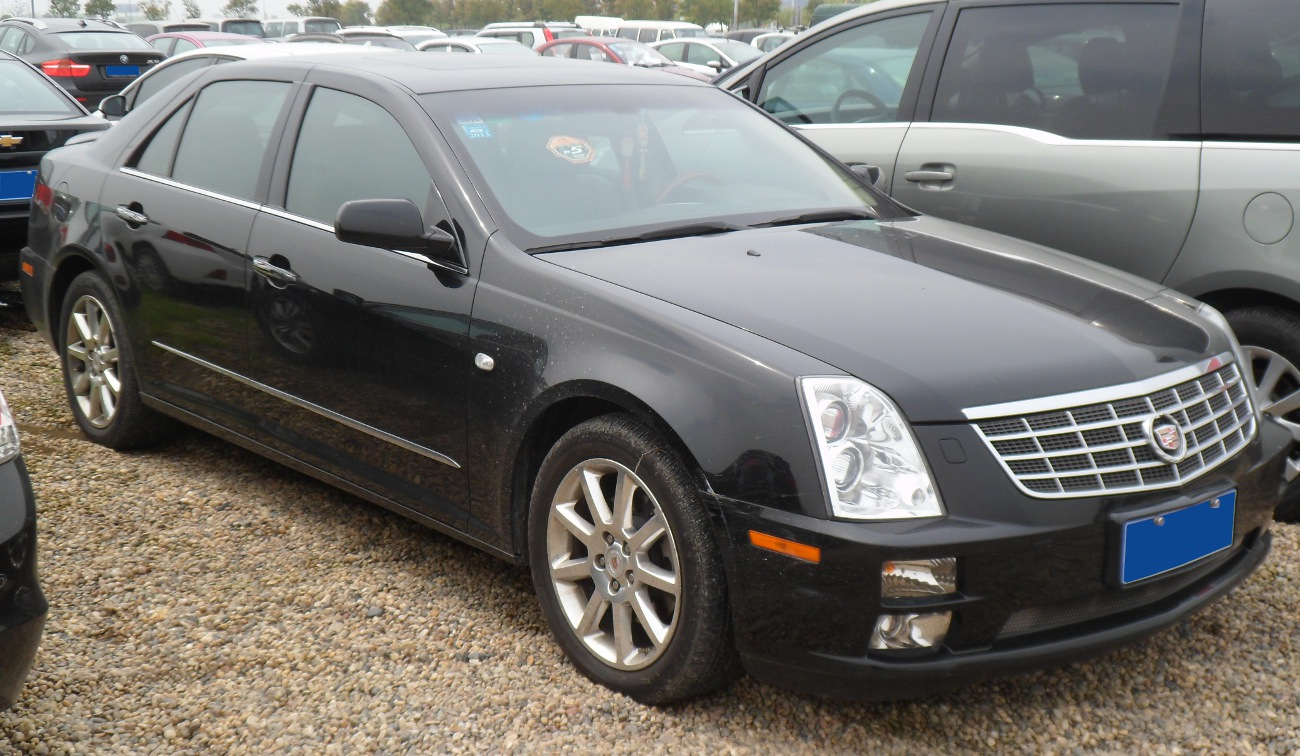 Cadillac SLS photographed in Anting, Shanghai municipality, China.